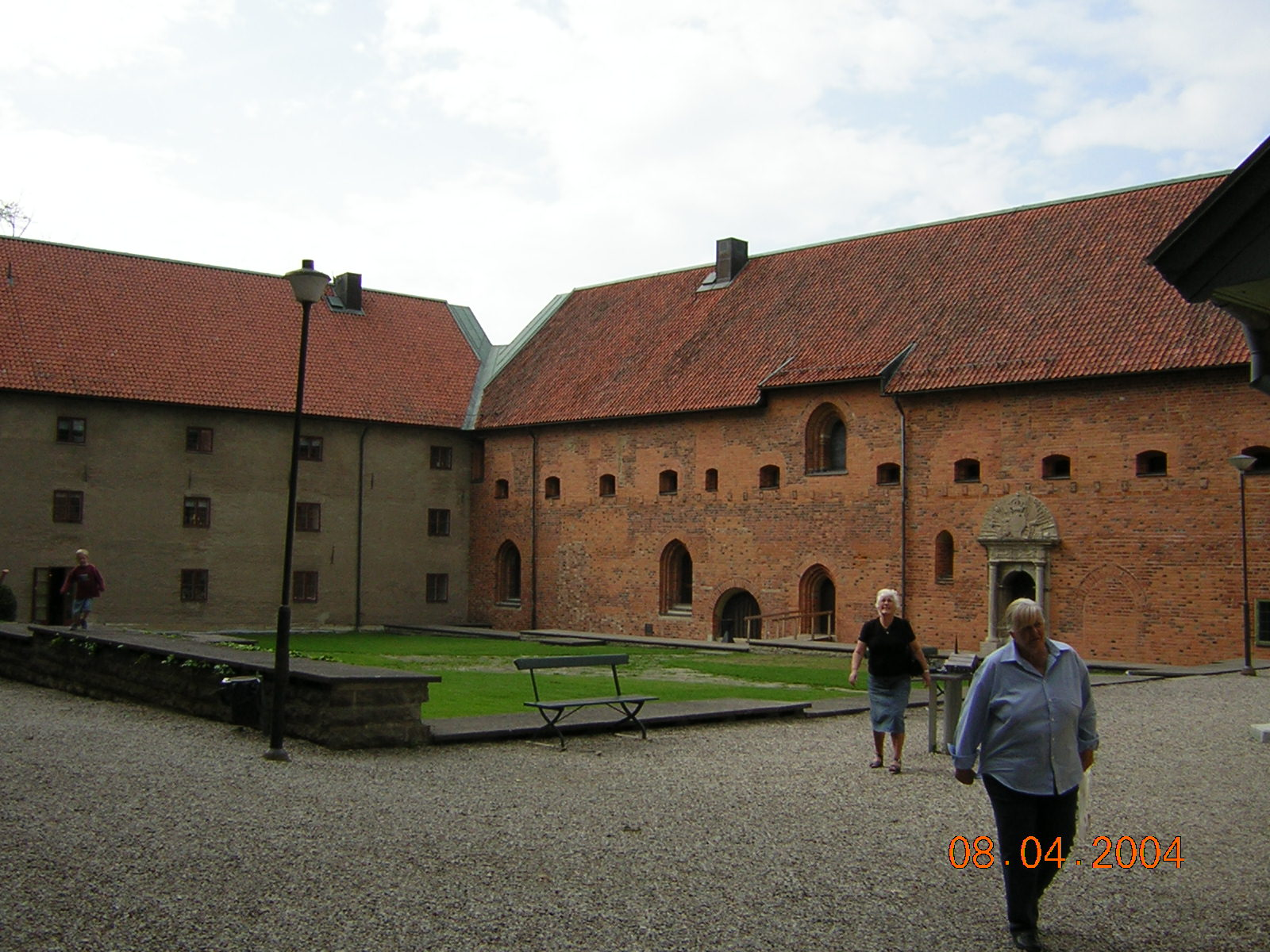 Foto: Ulf Nyberg 3 mars 2006 kl.22.57 UN 1600x1200 (398113 bytes) (Foto:Ulf Nyberg )